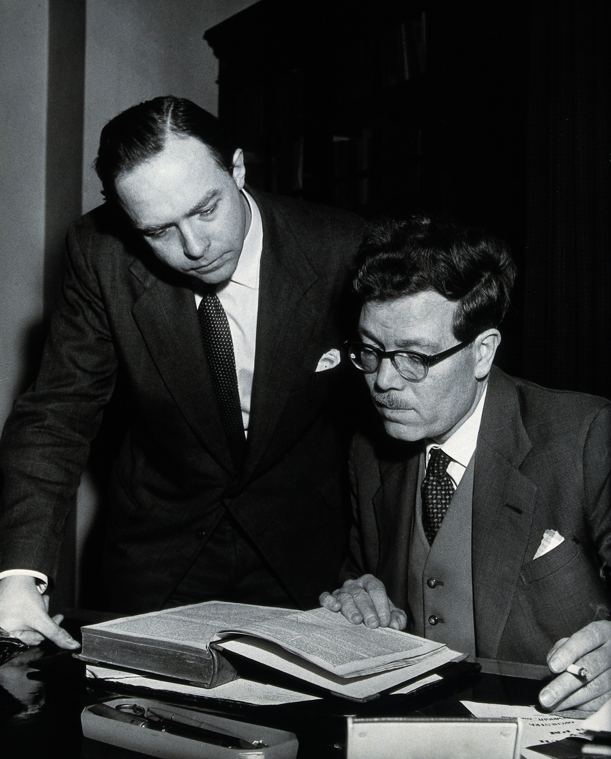 Edwin Clarke and Noel Poynter. Photograph by BIPS. Iconographic Collections Keywords: portrait photographs